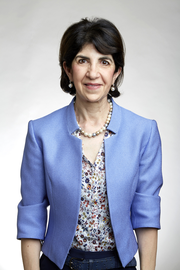 Fabiola Gianotti is an Italian particle physicist and CERN Director-General Attribution: The Royal Society